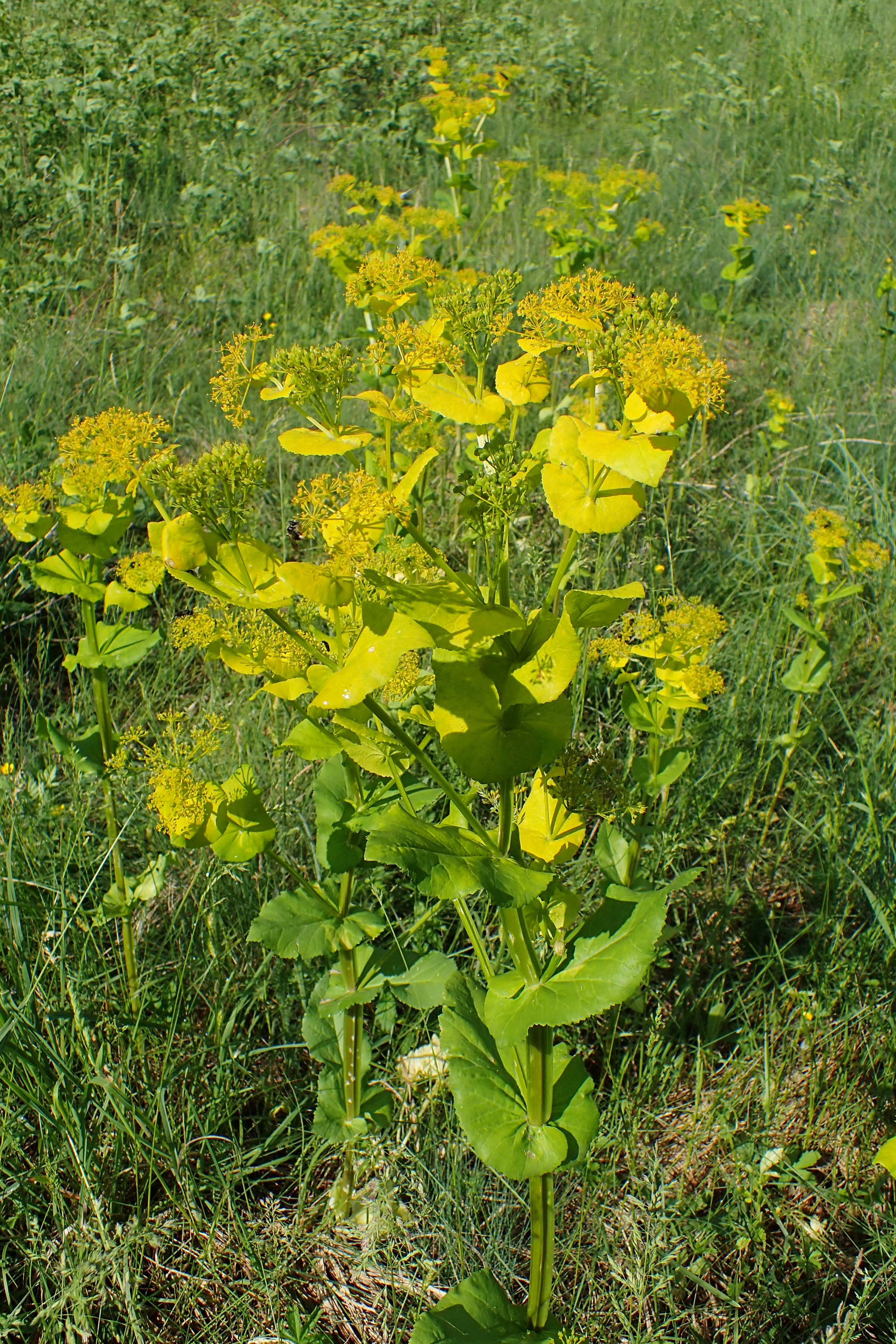 Smyrnium perfoliatum in Belogradchik, W Bulgaria